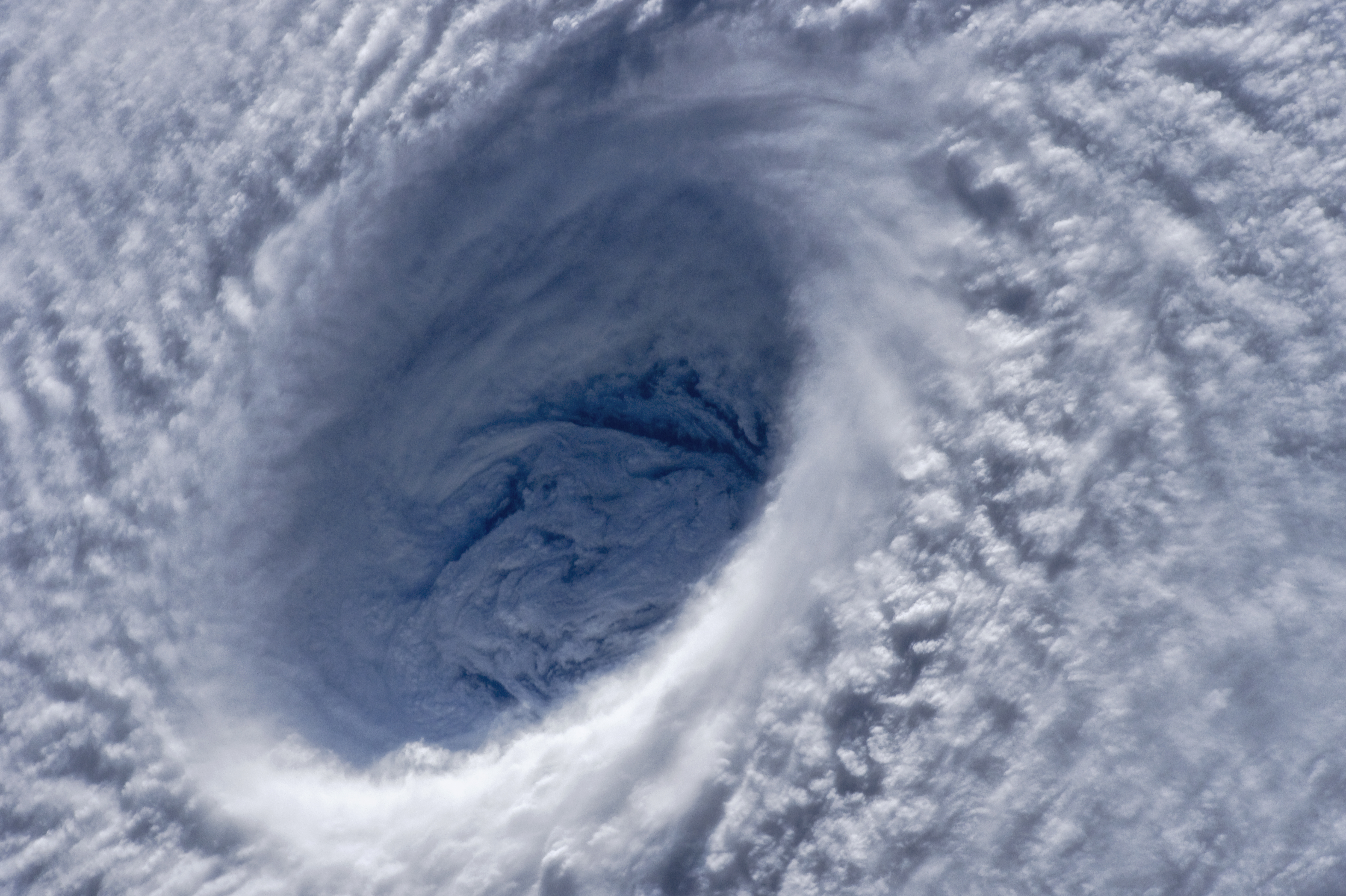 The eye of Super Typhoon Maysak from the ISS